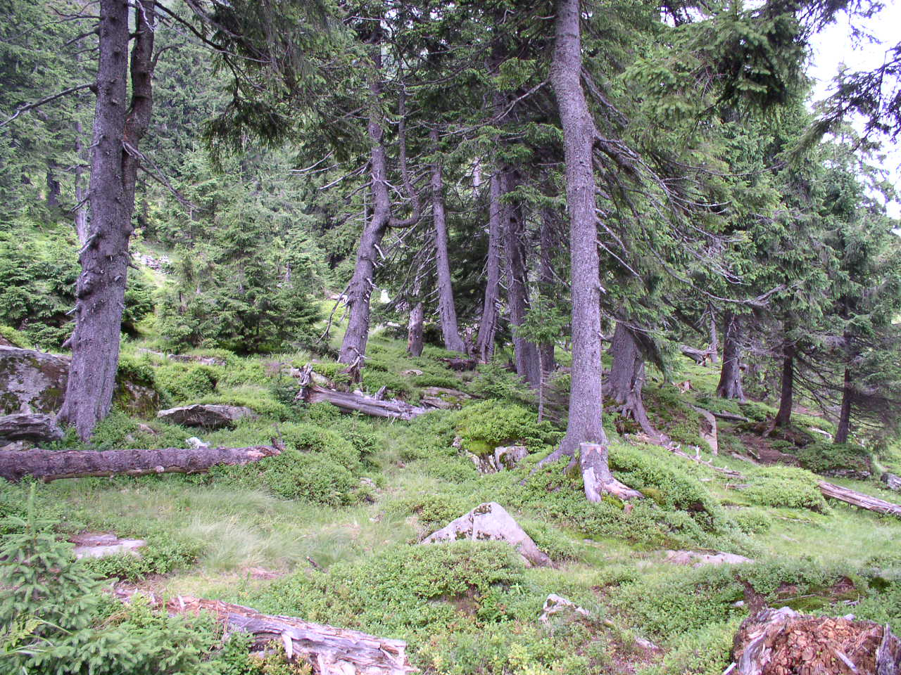 Chornohora range. Carpathian Mountains, Ukraine. Trees are Picea abies, low shrubs are Juniperus communis subsp. alpina and Vaccinium spp..